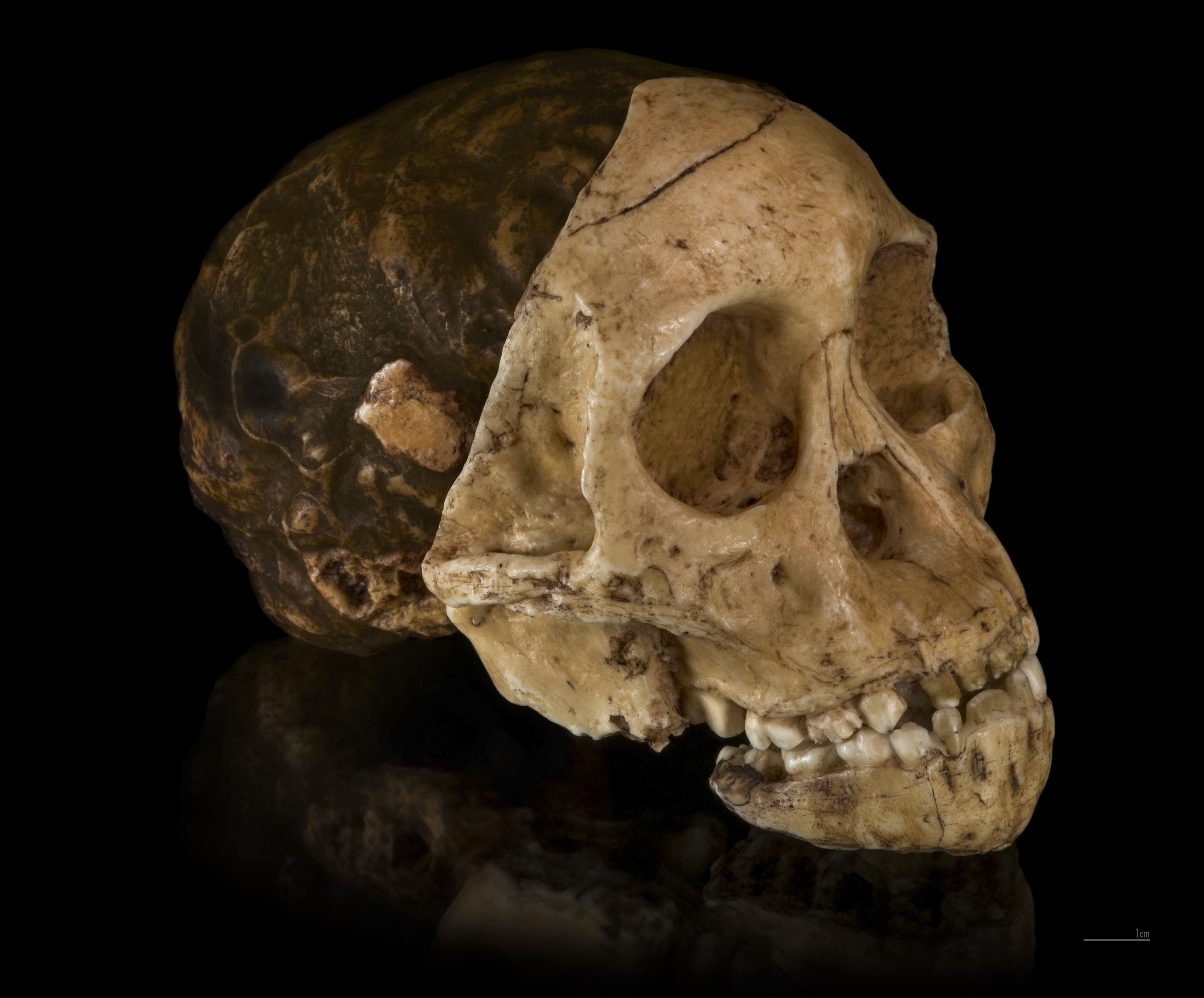 Cast in three parts: endocranium face and mandible, of a 2.1 million year old Australopithecus africanus specimen so-called Taung child, discovered in South Africa. Collection of the University of the Witwatersrand (Evolutionary Studies Institute), Johannesburg, South Africa. Sterkfontein cave, hominid fossil